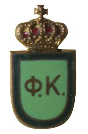 Badge of Financial Control (Kingdom SHS), used before 1935.